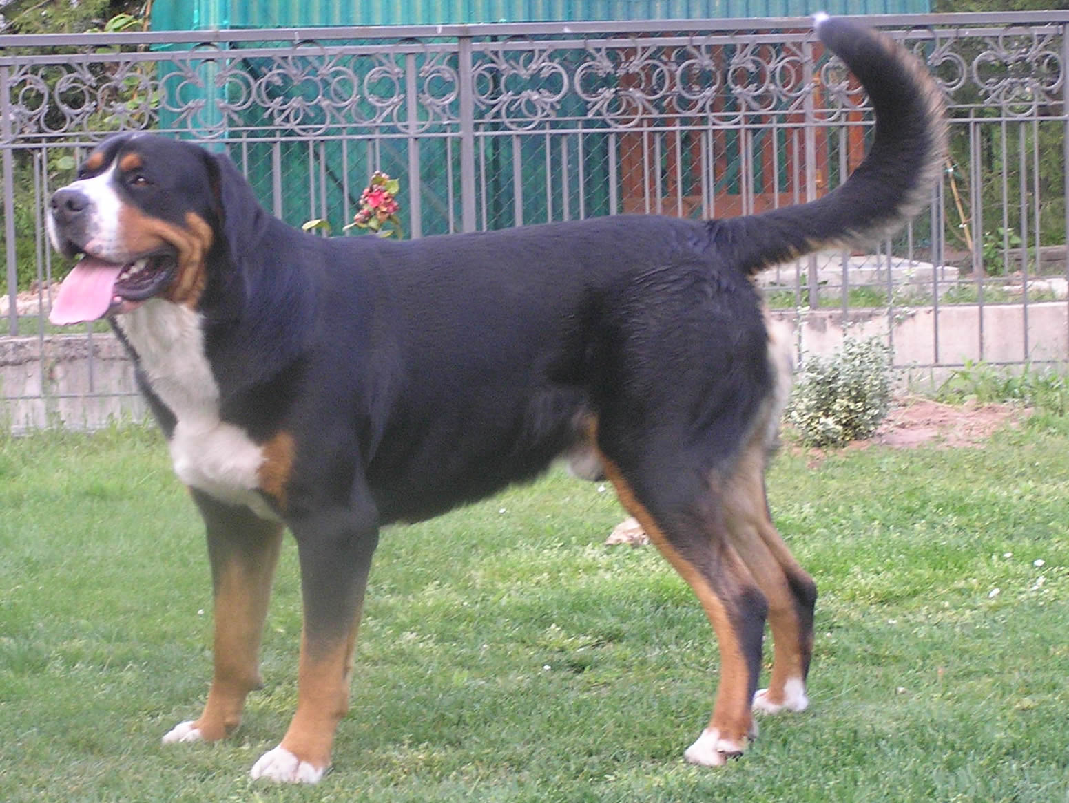 A Greater Swiss Mountain Dog